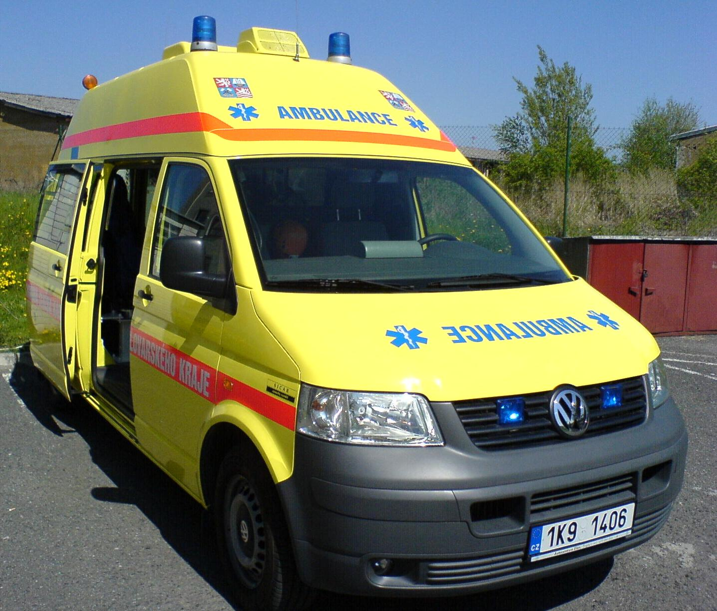 VolksWagen Transporter 2,5TDI, 4Motion. Emergency medical services, with "AMBULANCE" in mirror writing ("ECNALUBMA").